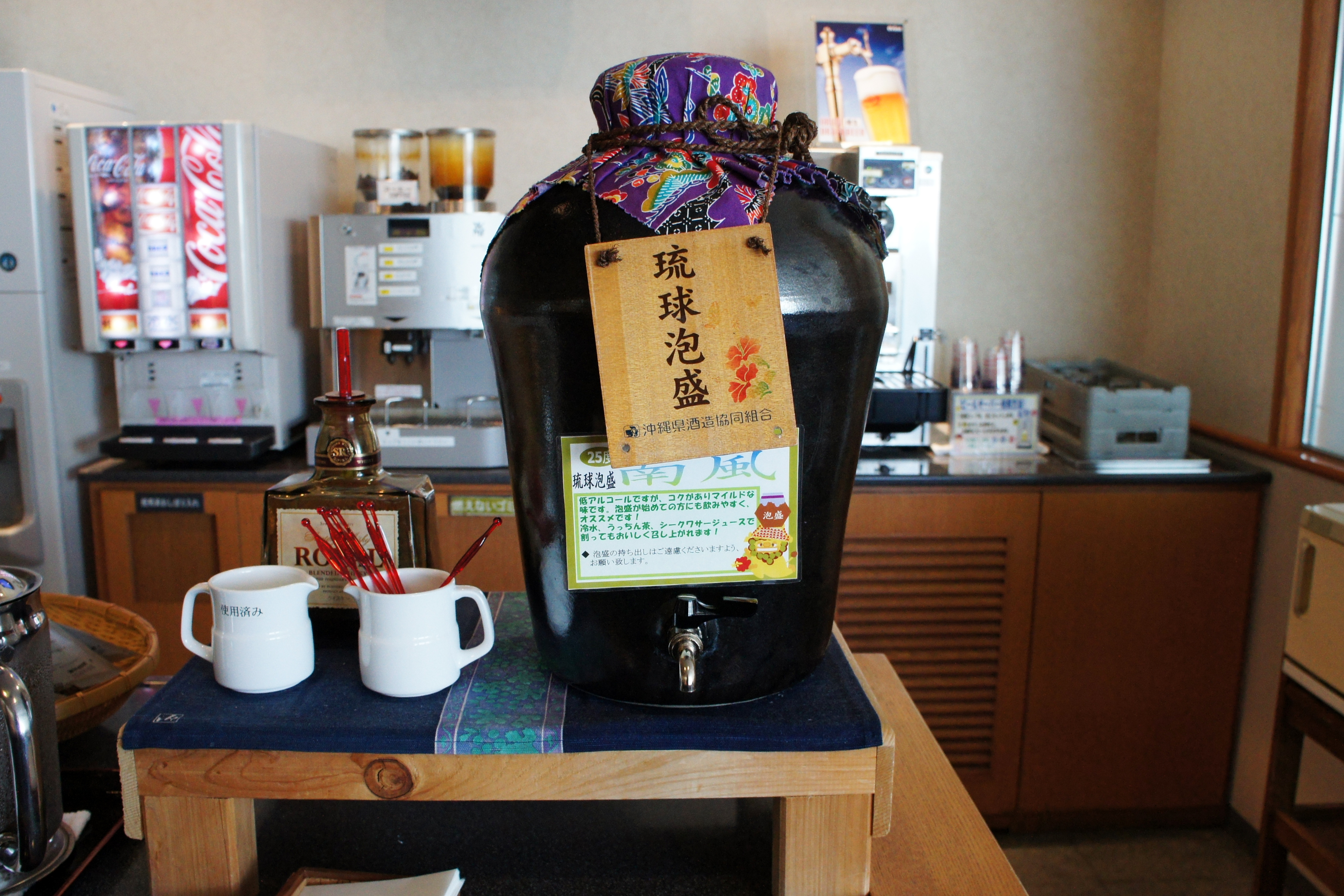 SAKURA Lounge of Naha Airport in Naha, Okinawa prefecture, Japan